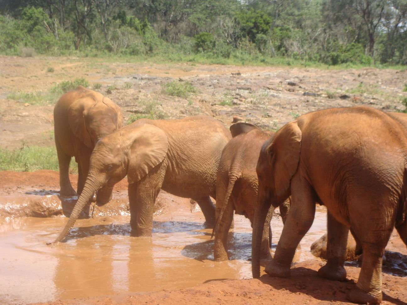 Baby elephants in "The David Sheldrick Wildlife Trust", Nairobi, Kenya. The David Sheldrick Wildlife Trust has, between 1987 and 2009, successfully hand-reared over 85 newborn and very young elephant orphans through its Nairobi Nursery.